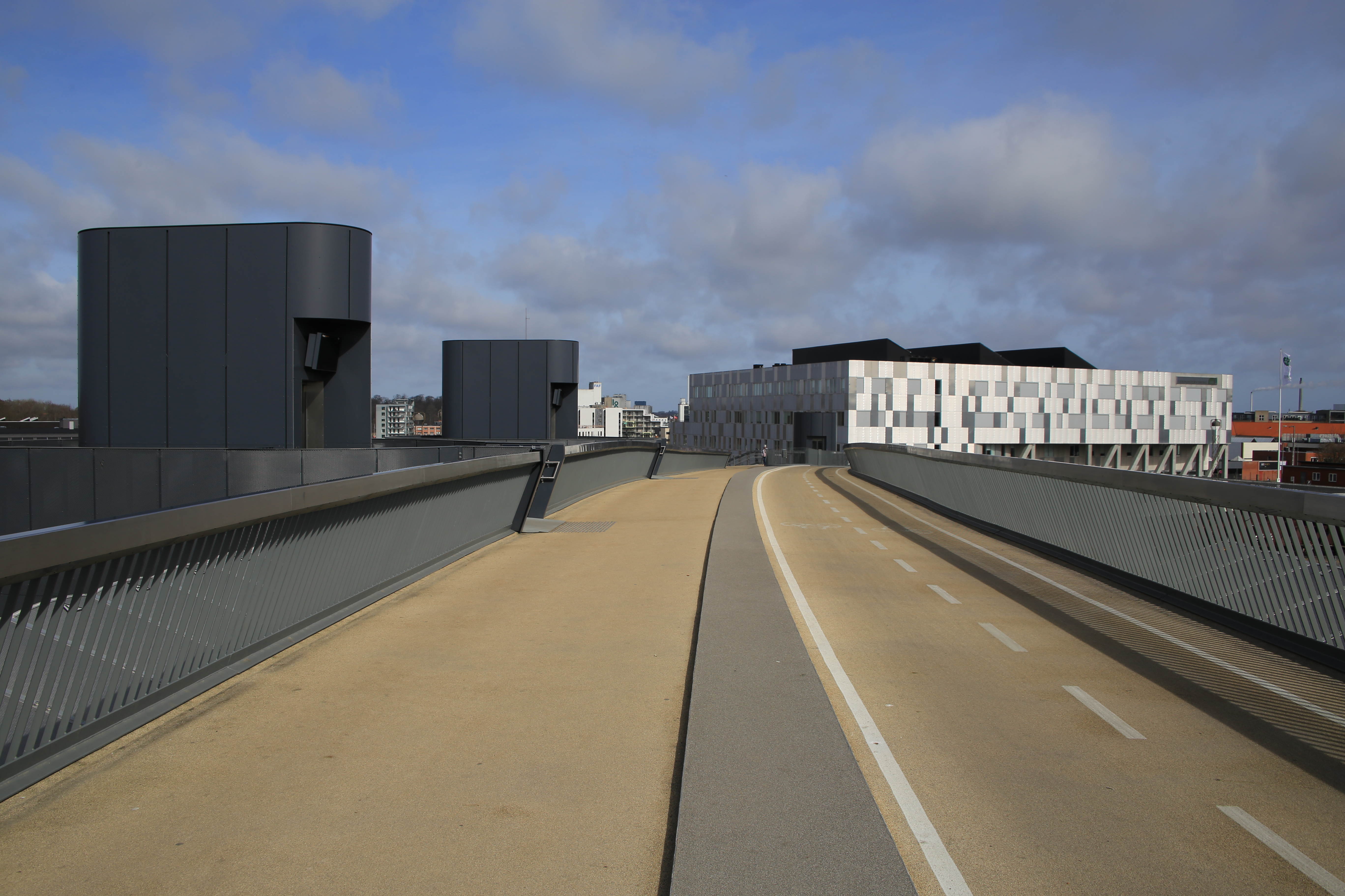 Byens Bro (The City's Bridge) in Odense, Denmark, seen towards north. It crosses the railway tracks at Odense railway station. The pedestrian path is to the left, and the two-way bicycle path is to the right. To the right stairs and lift towers to the station's platforms 5/6 and 7/8. The building in the background to the right houses the educational institution HF & VUC FYN.